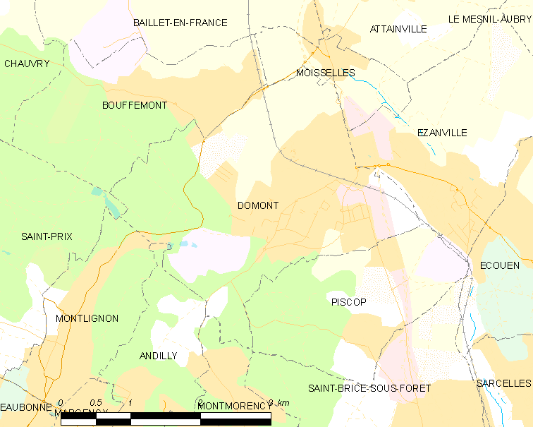 Map of French municipality Domont